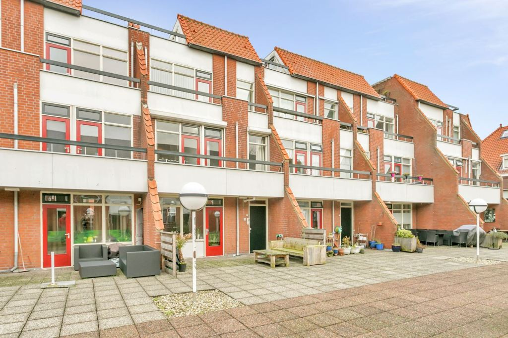 Housing and shopping complex Oosthavenkade Schiedamseweg in Vlaardingen by Dutch architect Lex Haak (2017)